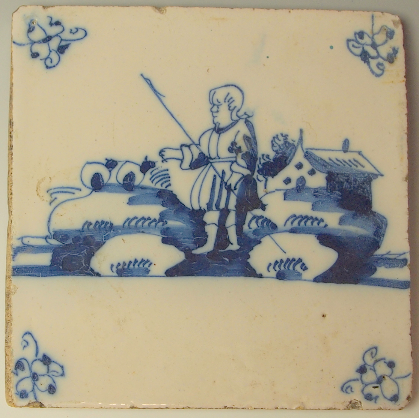 Dutch Delftware tile exported to Topsham Devon UK in the 1600s.